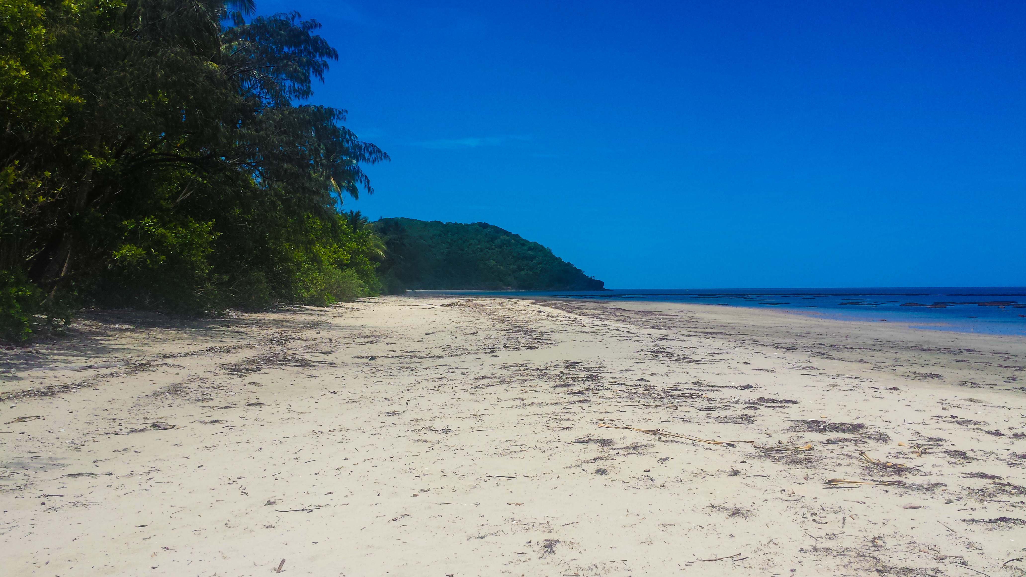 Cape Trib. from the Southern Beach on the edge of the forest